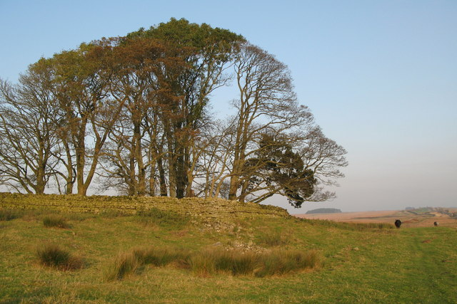 (The site of) Milecastle 34 A "modern" drystone wall now marks the boundary of Milecastle 34.